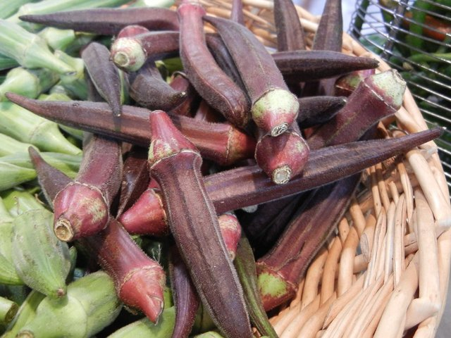 Red okra pods